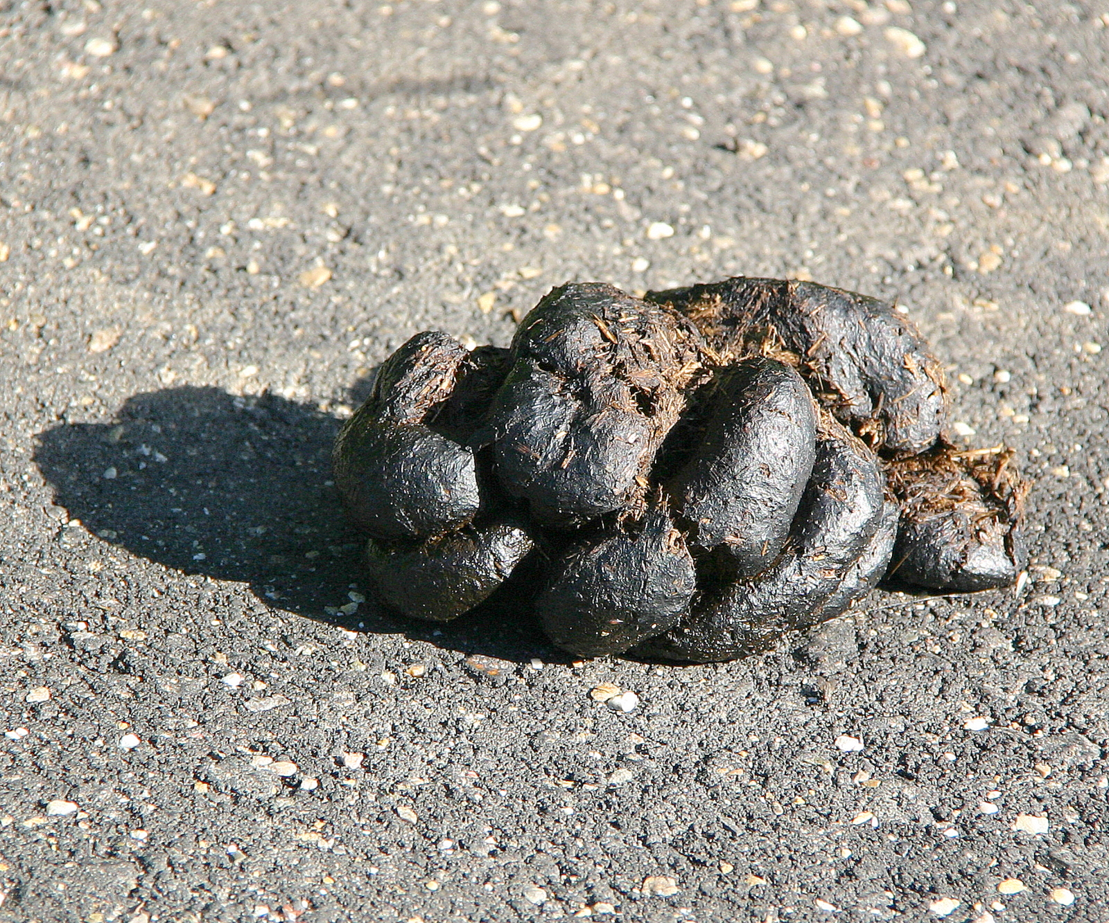 Feces of horse